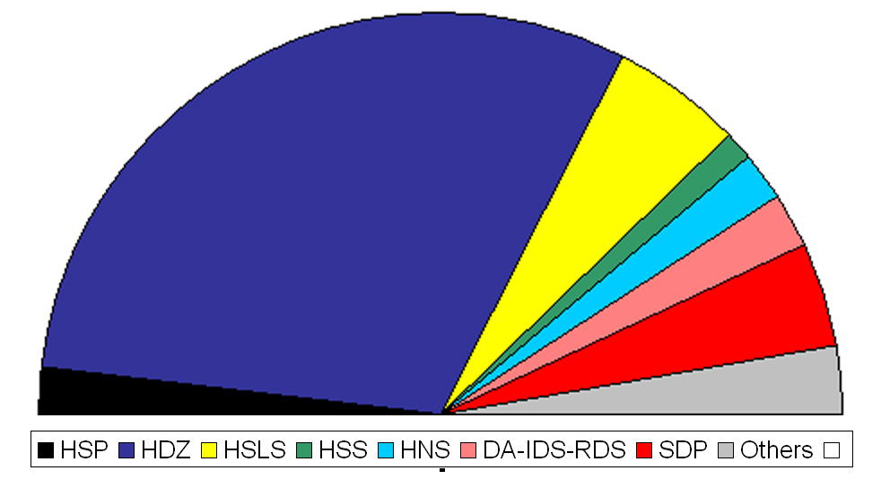 Election results in 1992 for Croatian parliament